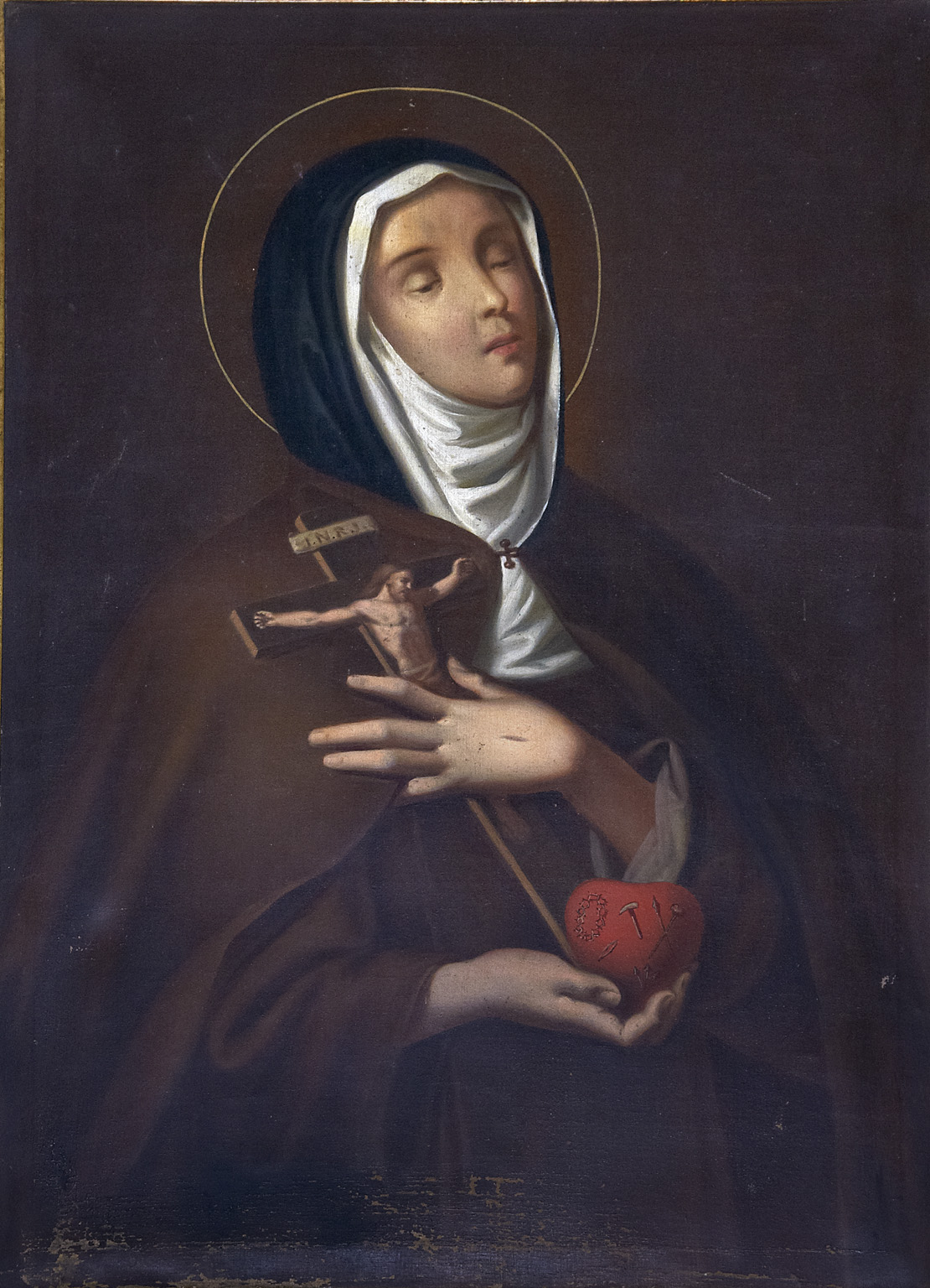 Неизвестный автор. Святая Клара из Монтефалько (XVII век). Холст, масло.